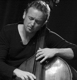 Morten Ramsbøl